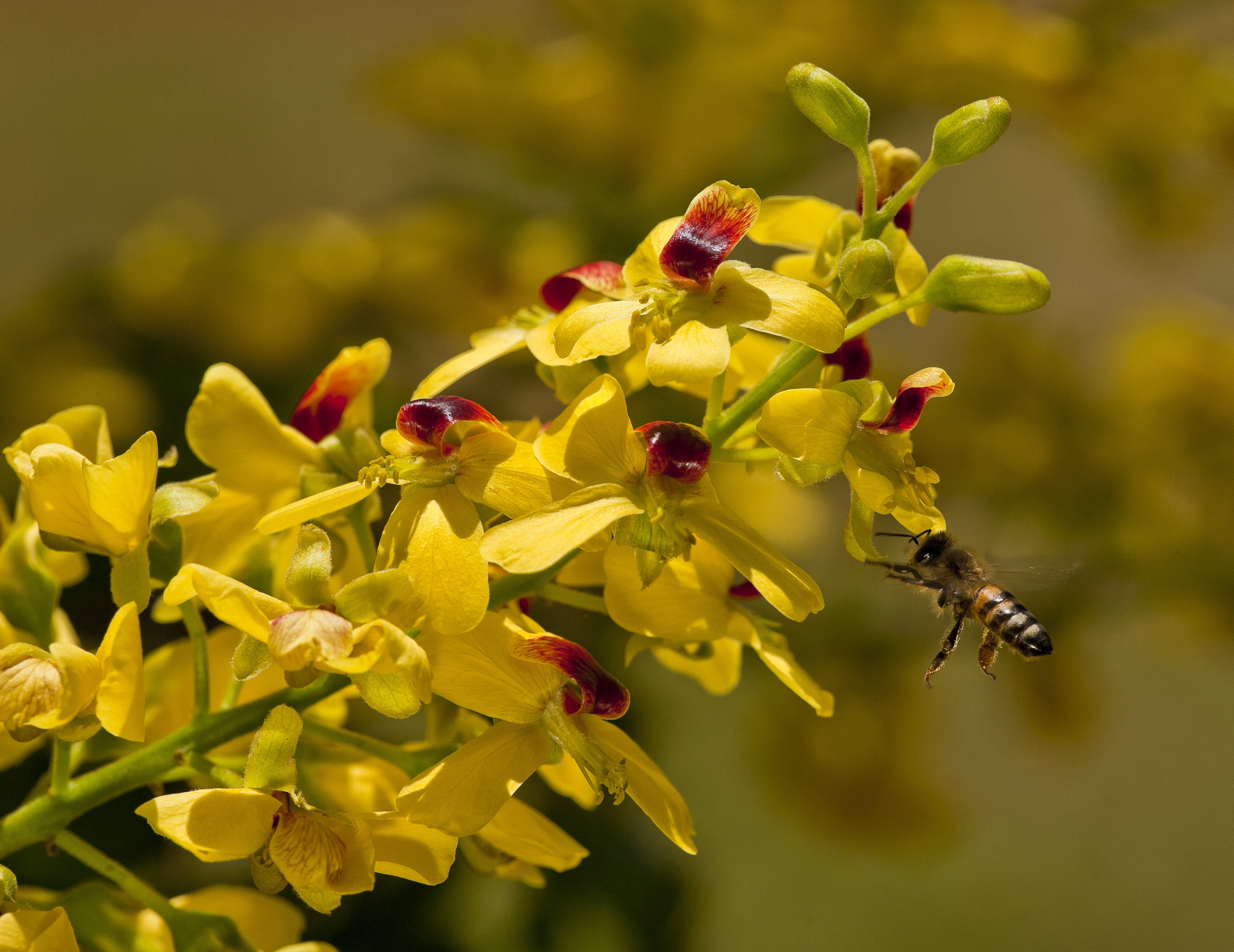 Caesalpinia echinata is a species of Brazilian timber tree in the pea family, Fabaceae. Common names include Brazilwood, Pau-Brasil, Pau de Pernambuco, Nicaragua wood and Ibirapitanga (Tupi). This plant has a dense, orange-red heartwood that takes a high shine, and it is the premier wood used for making bows for stringed instruments. The wood also yields a red dye called brazilin, which oxidizes to brazilein.